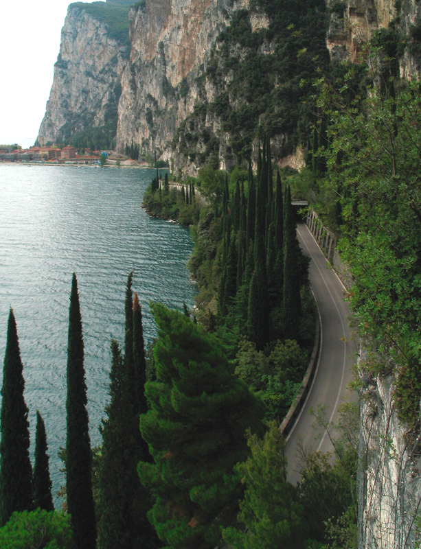 Gardesana with the village of Campione, seen from the road to Pieve/Lake Garda/Italy